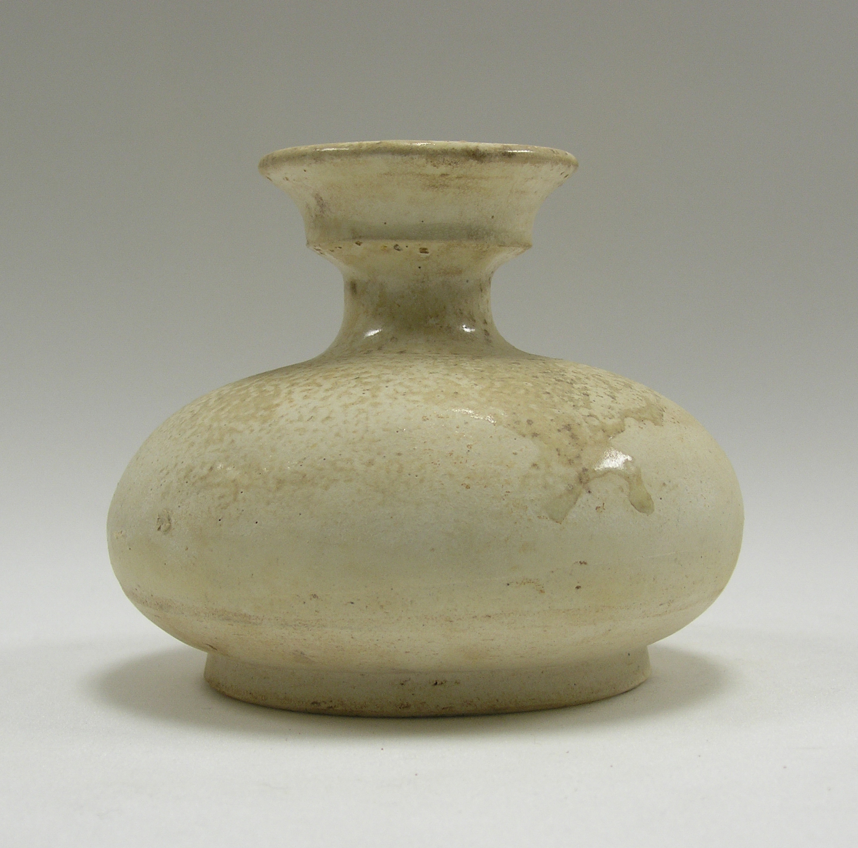 Bottle, earthenware, cream feldspathic glaze, excavated in Honan